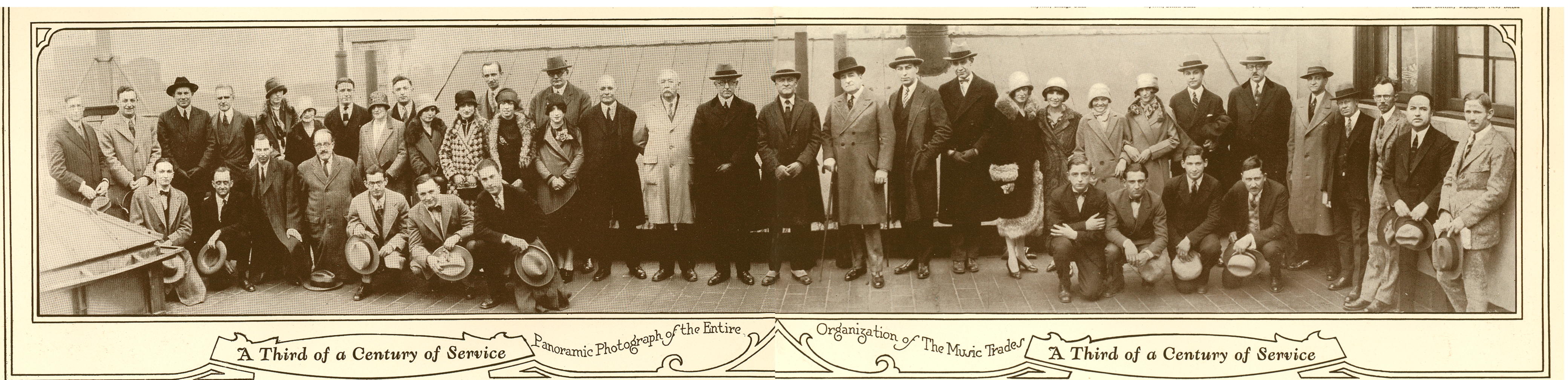 Music Trades 1926 staff